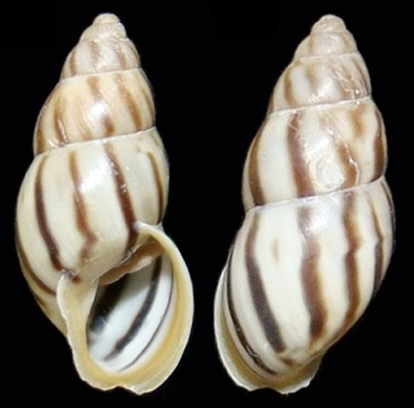 Photo of apertural and abapertural view of the shell of Drymaeus cecileae. RMNH 114184, shell height 21.0 mm.